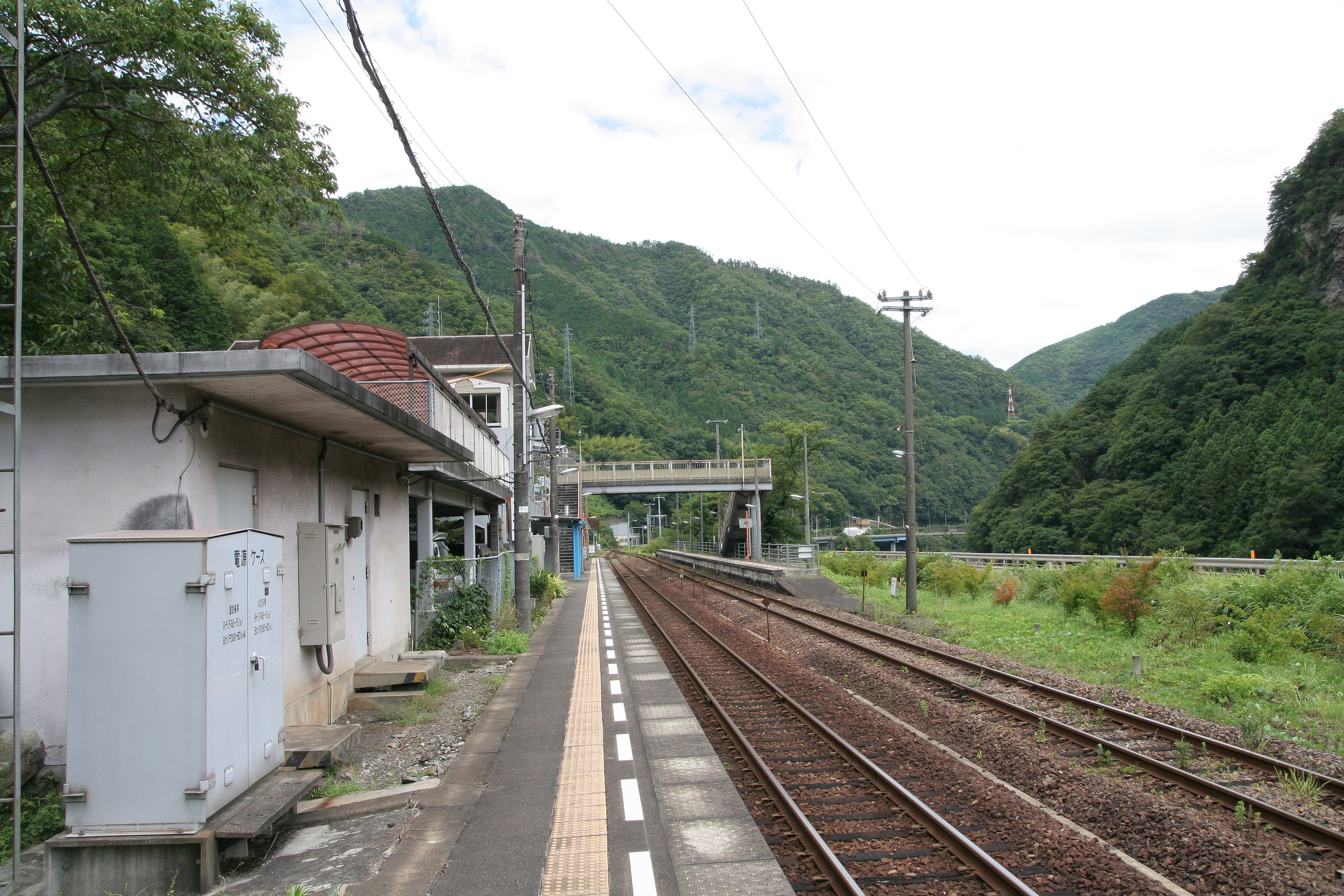 Shikoku Railway Dosan Line awa-kawaguchi Station enclosure